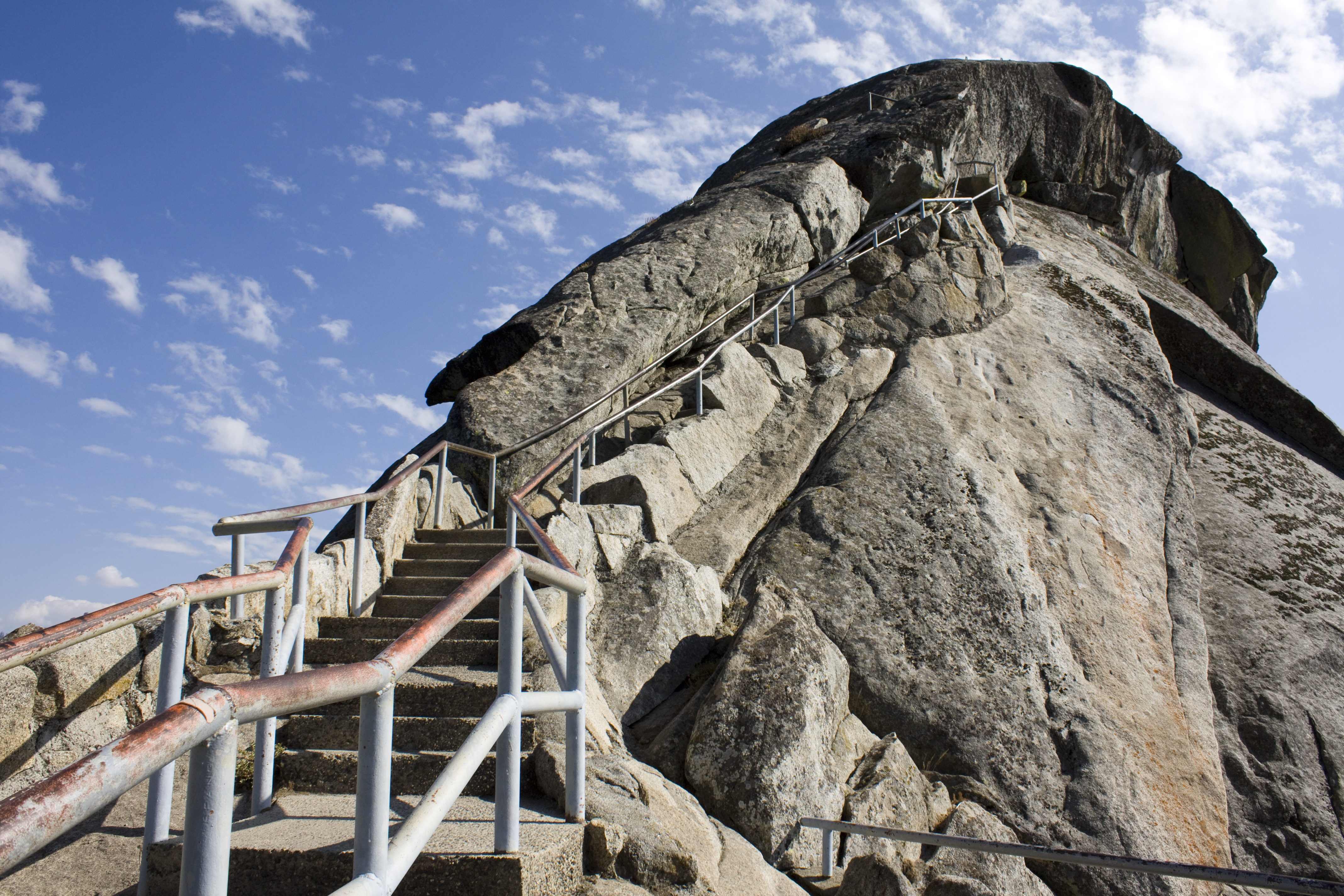 Steps up Moro Rock at Sequoia National Park, USA in September 2008.